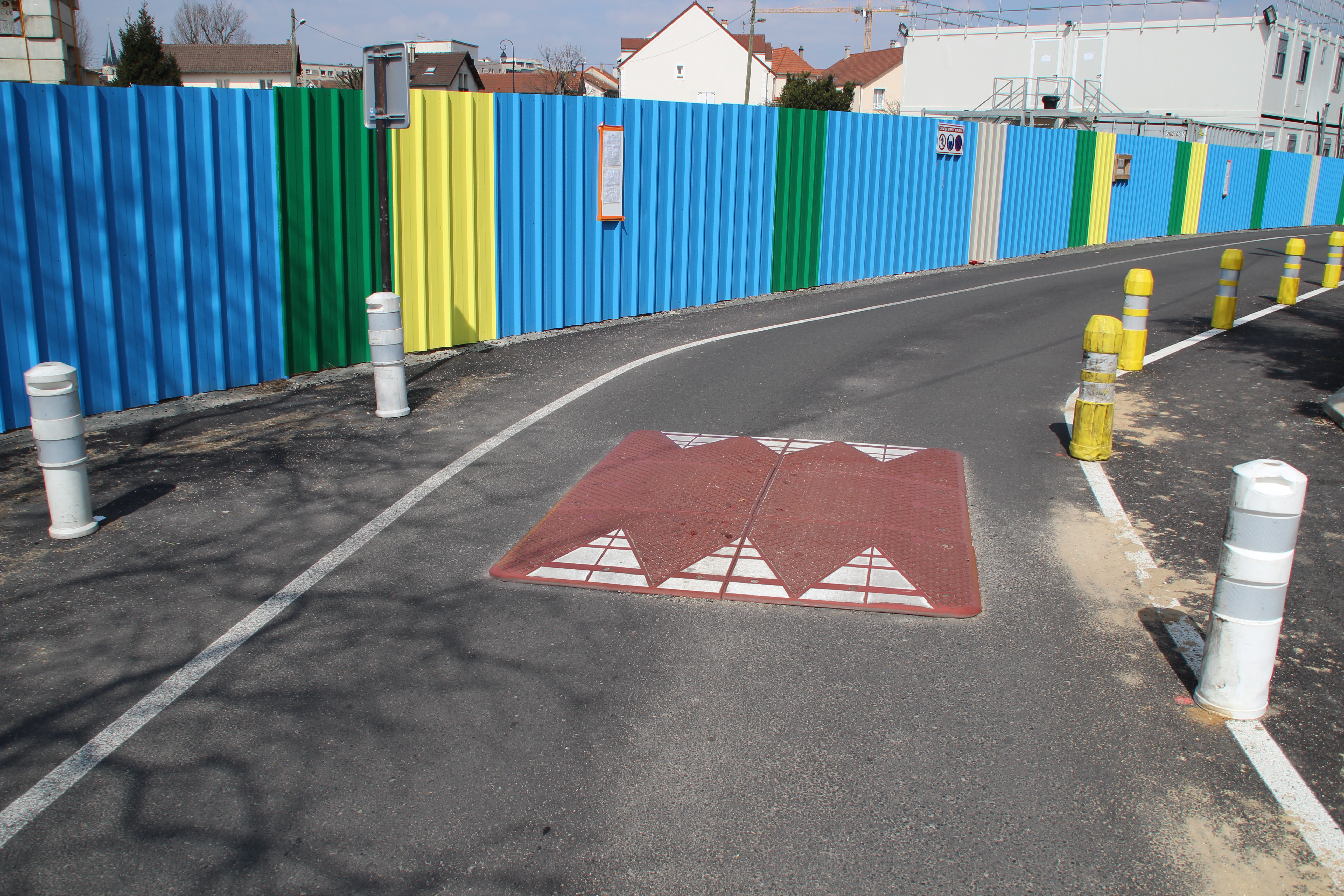 Construction site of the complexe associatif multifonctions in Antony, Hauts-de-Seine, France.